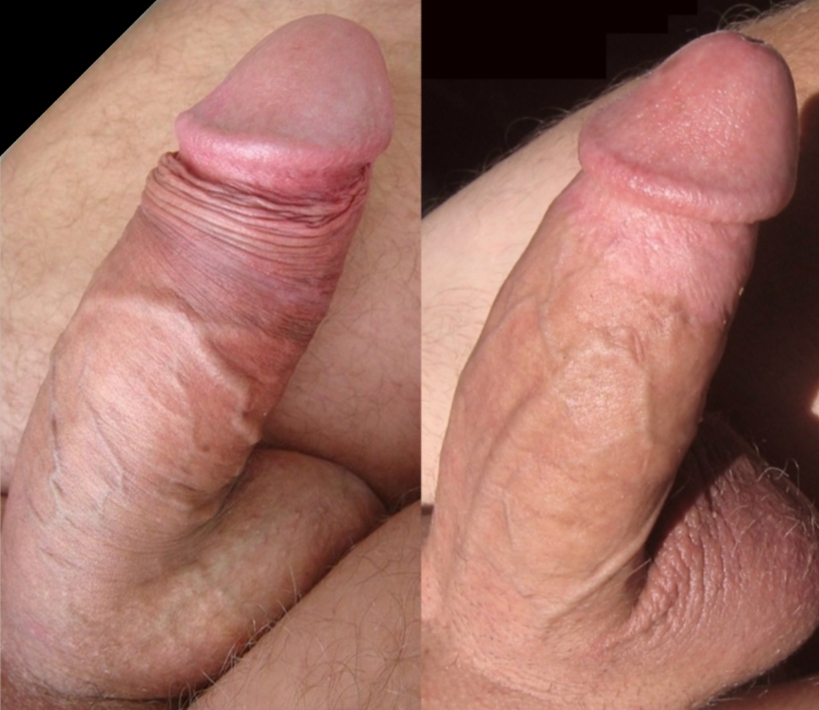 penissss